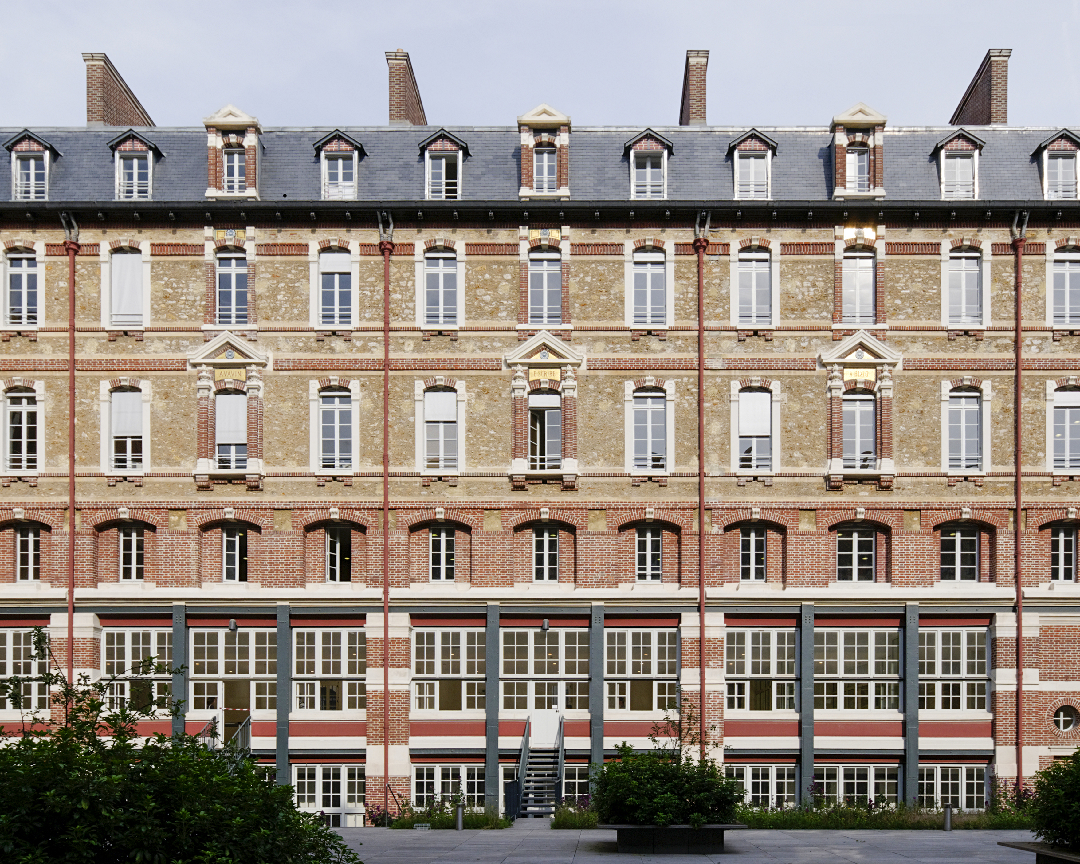 Interior court of the Collège Sainte-Barbe, Paris.